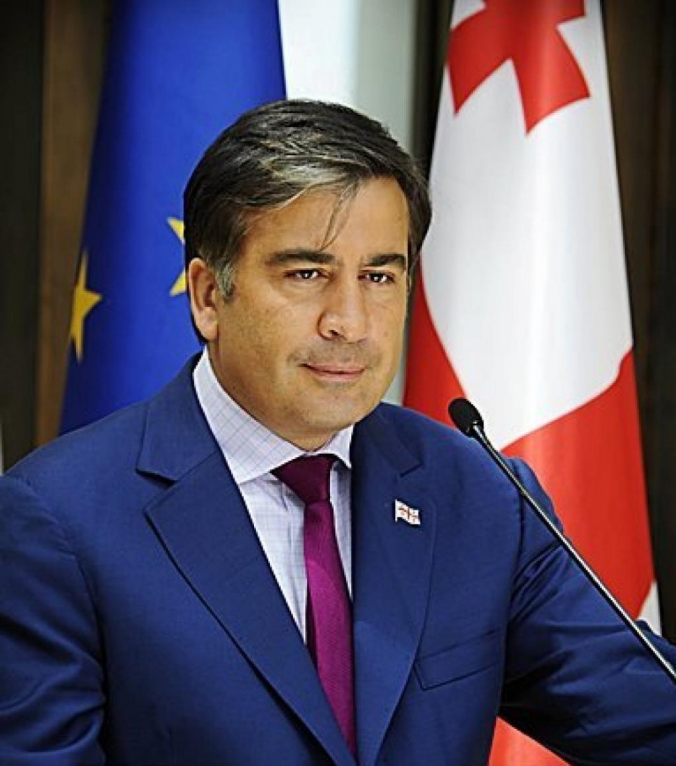 mikheilsaakashvili